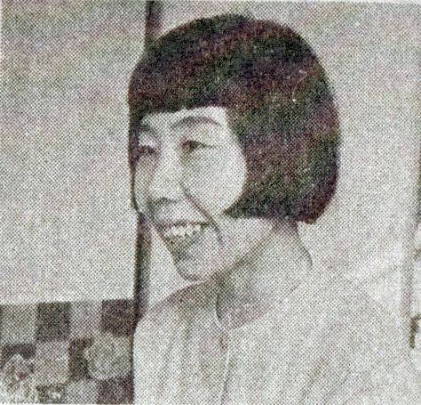 Taeko Kōno